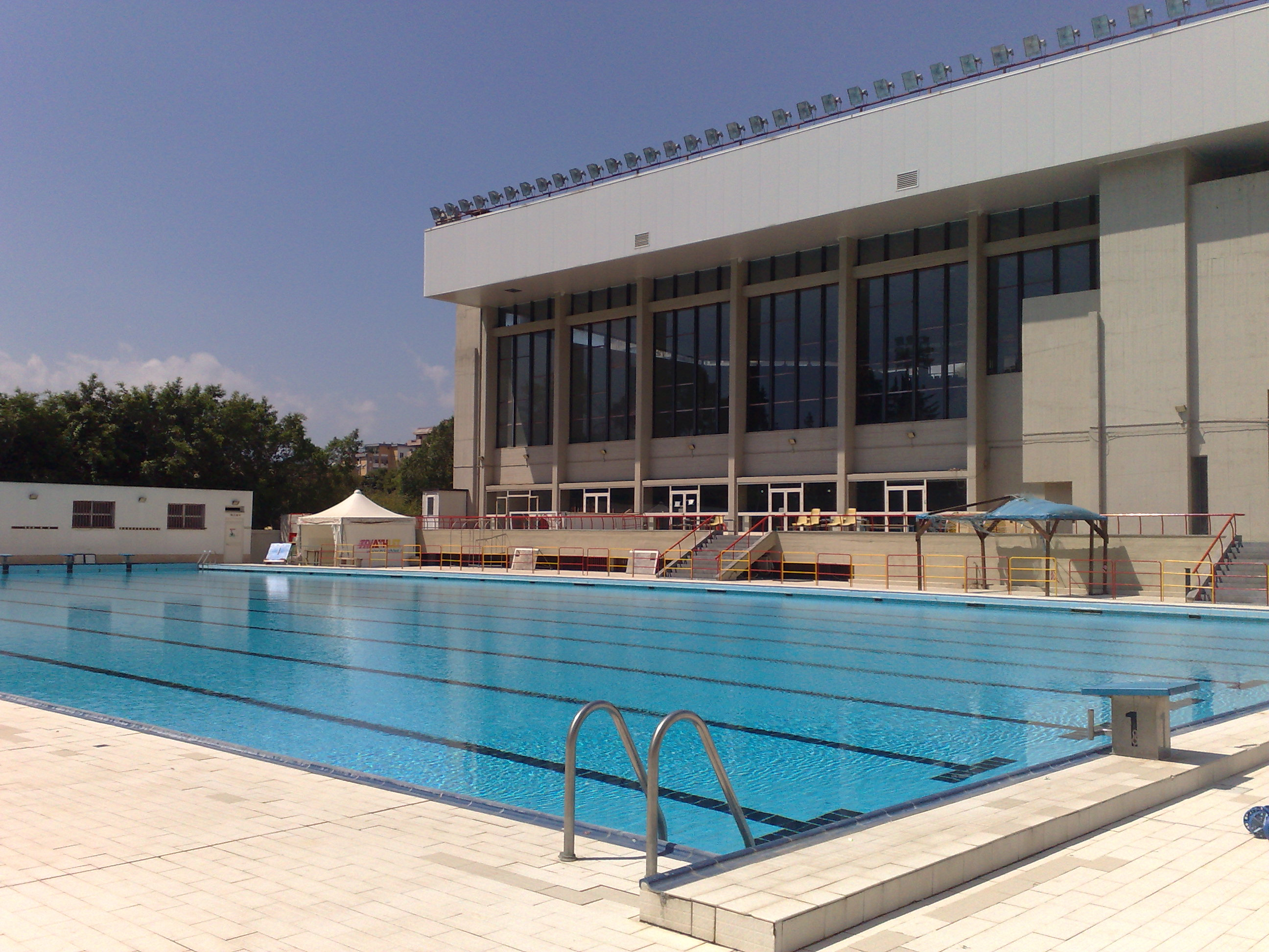 Palermo, public swimming pool